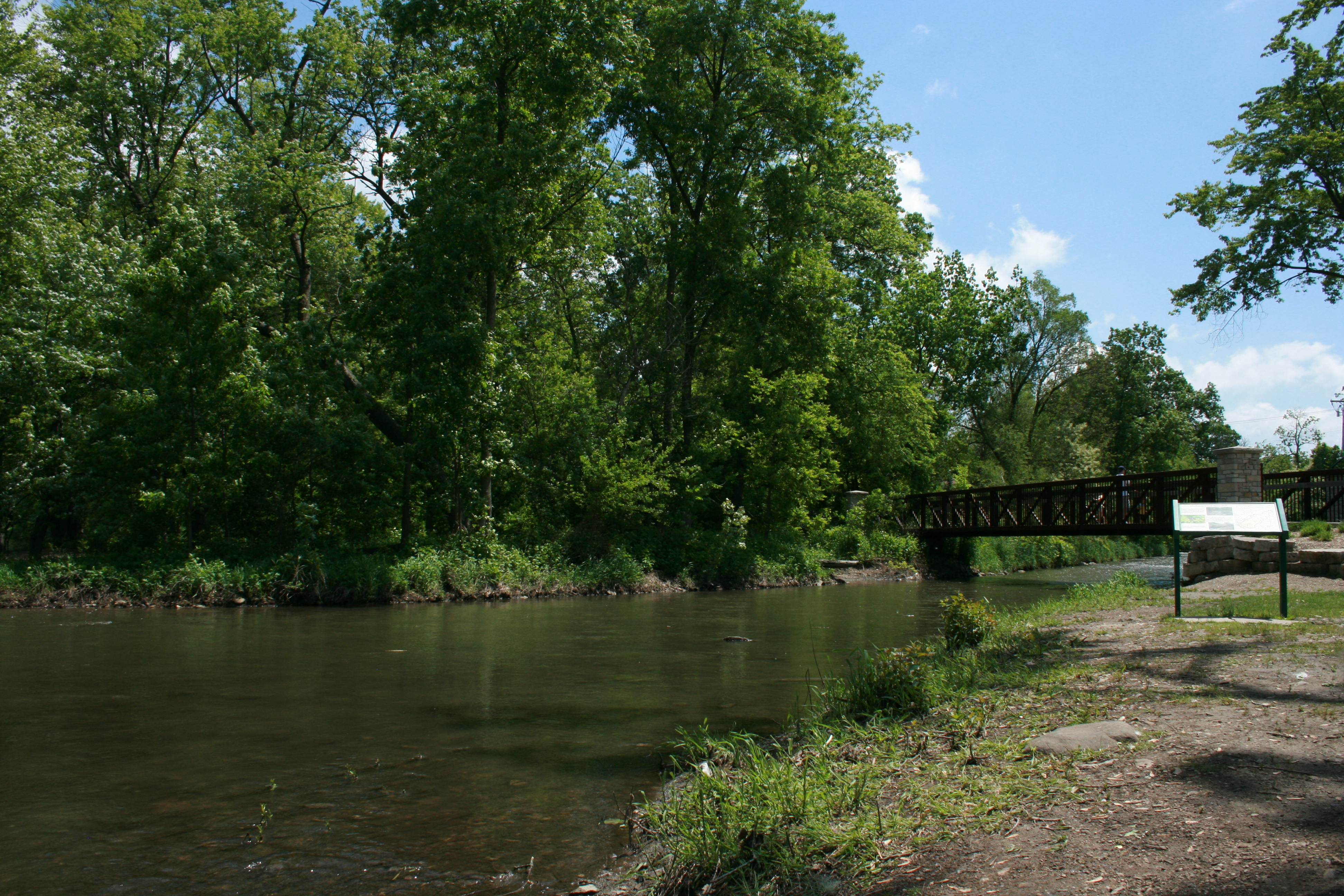 Oswego, Illinois - Hudson Crossing Park & Oswego Bridge